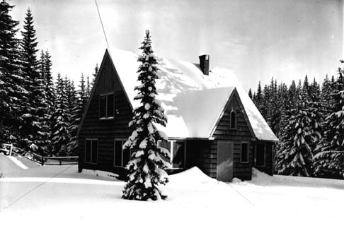 New residence, Toll Gate, Ranger Station.